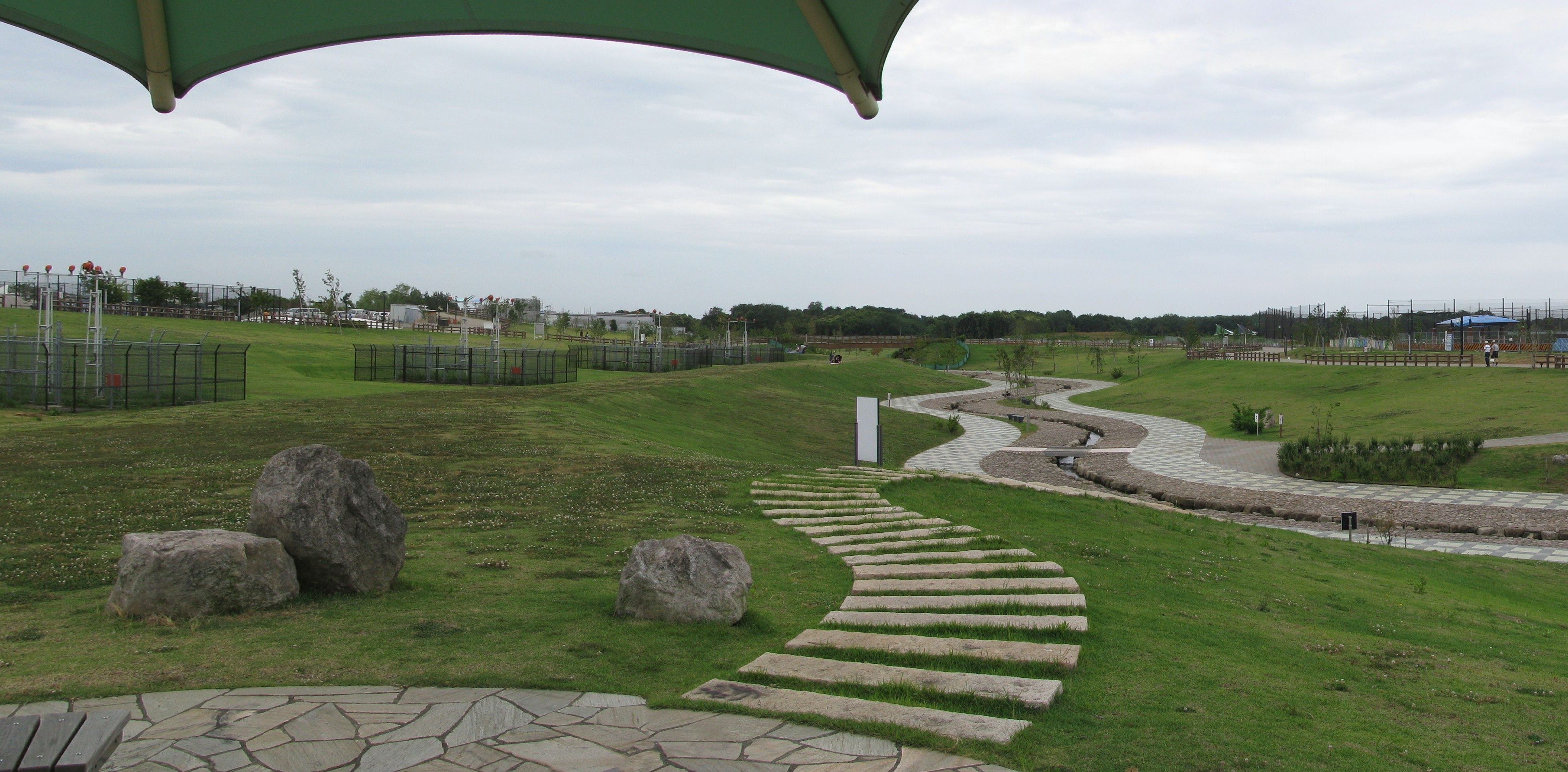 The Hikiji-gawa park Yutori-no-mori and Hikiji-gawa (river). This location is Hukuda in Yamato, Kanagawa Prefecture, Japan.